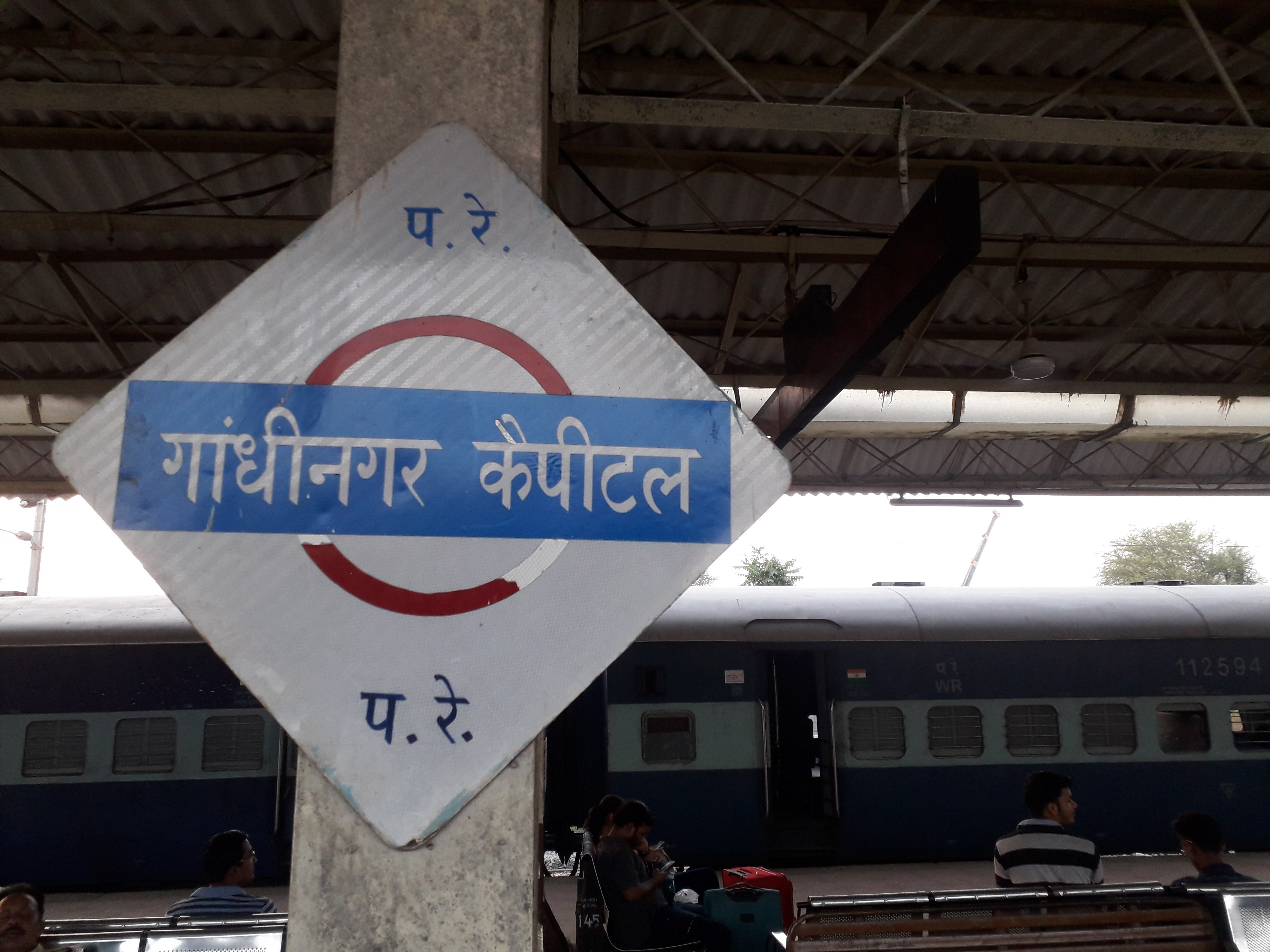 Gandhinagar Capital Gujarat - Platformboard - Hindi